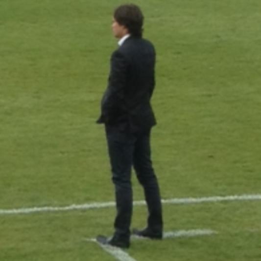 Photo of football coach Paul Munster